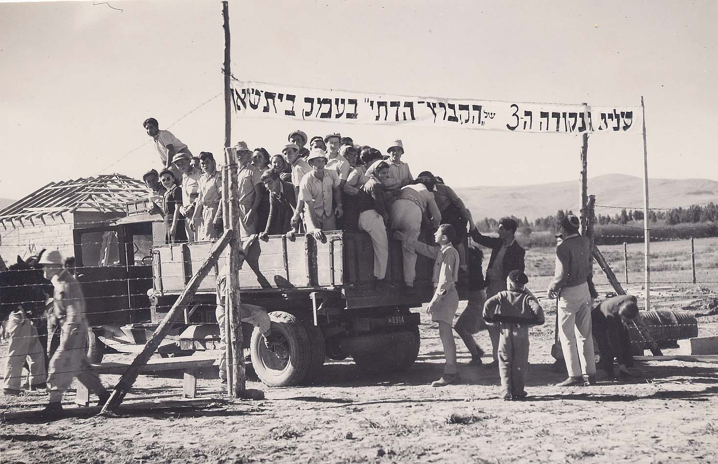 The group \"Emunim\" does the Beit Shean Valley Settlement established the kibuz \"Ein Hanatziv\".